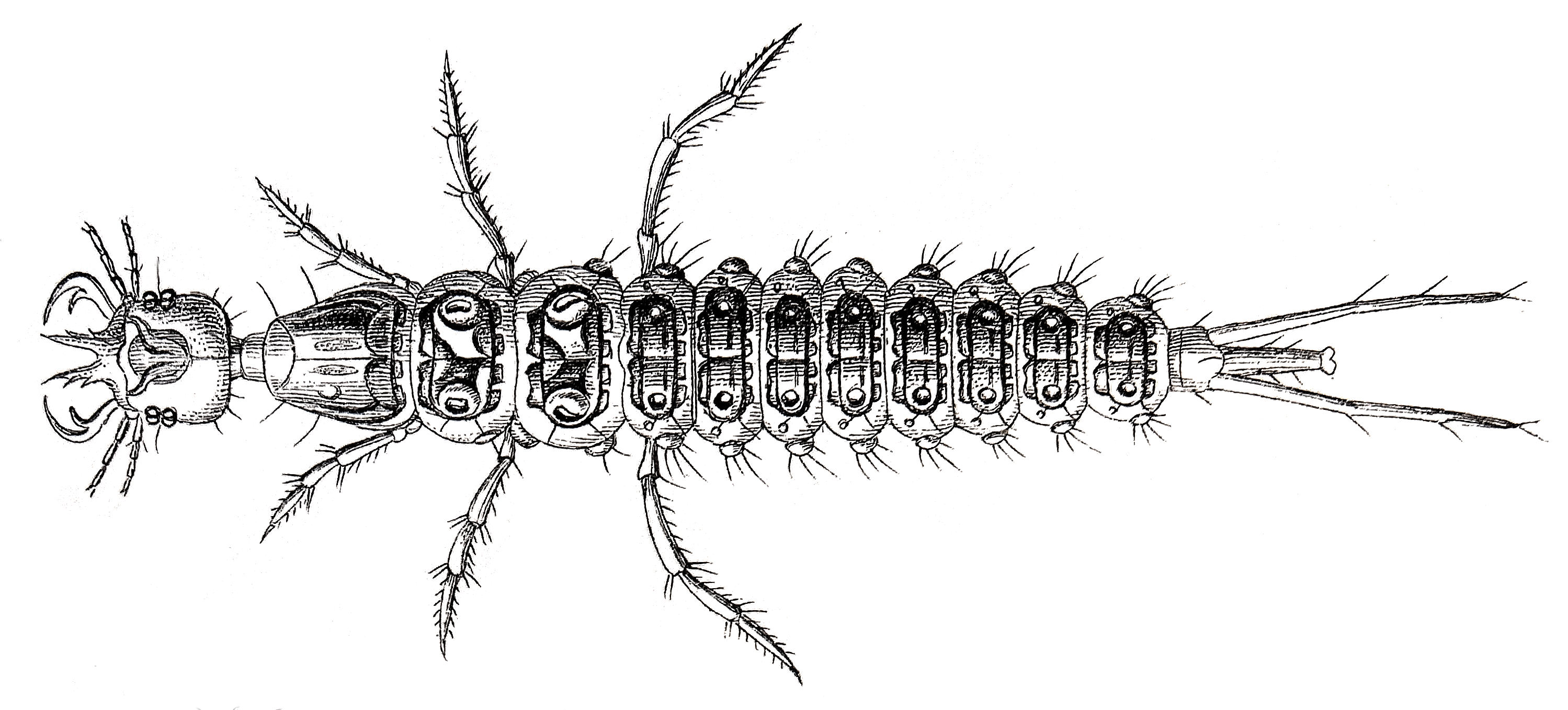 larva of Leistus rufomarginatus derived from E. Reitter, Fauna Germanica Bd.I 1908